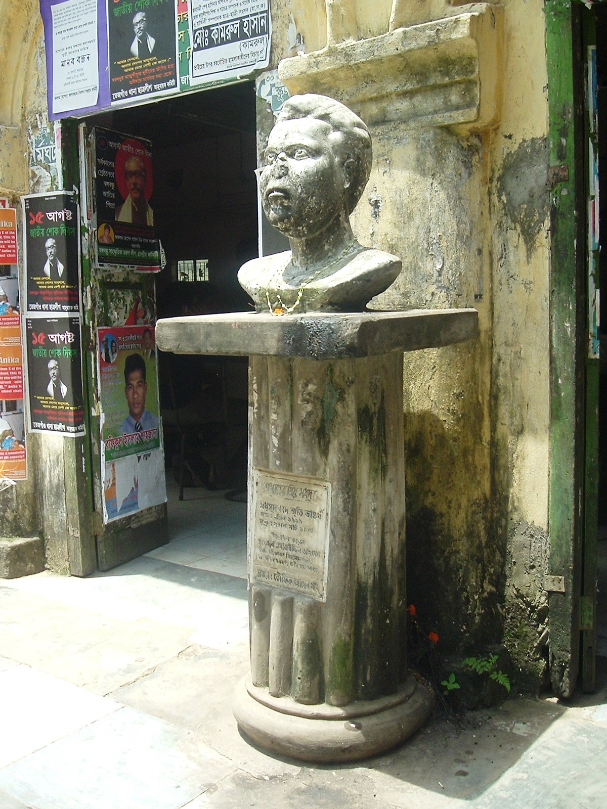 Sculpture of Modhu Da, DU, Dhaka.